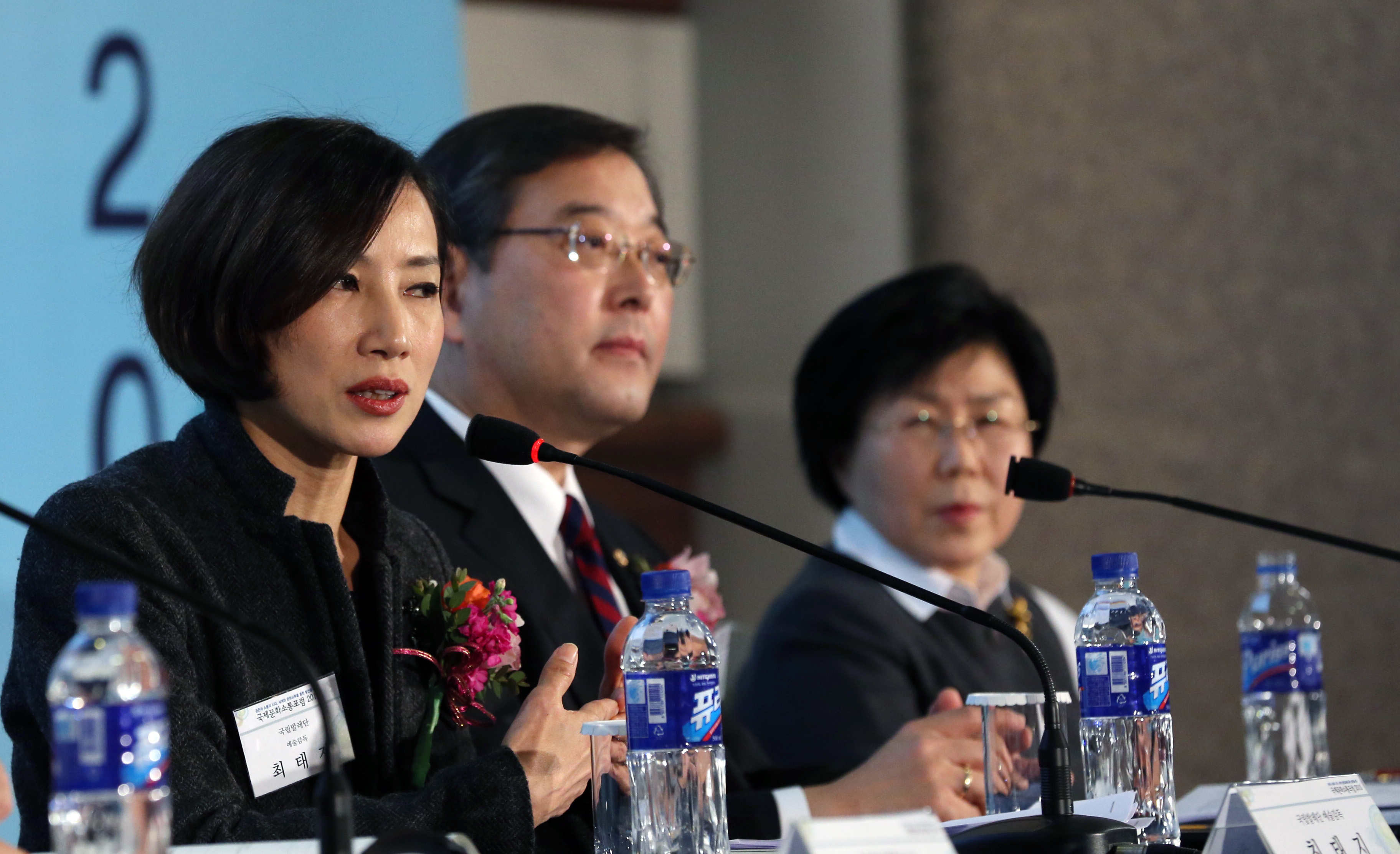 International Culture Communications Forum 2013 COEX, Seoul 2013.01.18. Ministry of Culture, Sports and Tourism Korean Culture and Information Service Jeon Han 국제문화소통포럼 2013 대담 중인 최태지 국립발렌단 예술감독(왼쪽) 코엑스 문화체육관광부 해외문화홍보원 코리아넷 전한